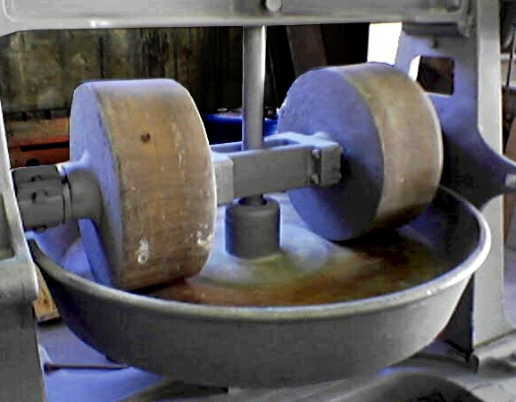 Stone grinder of the Mill workshop of the manufacture nationale de Sèvres